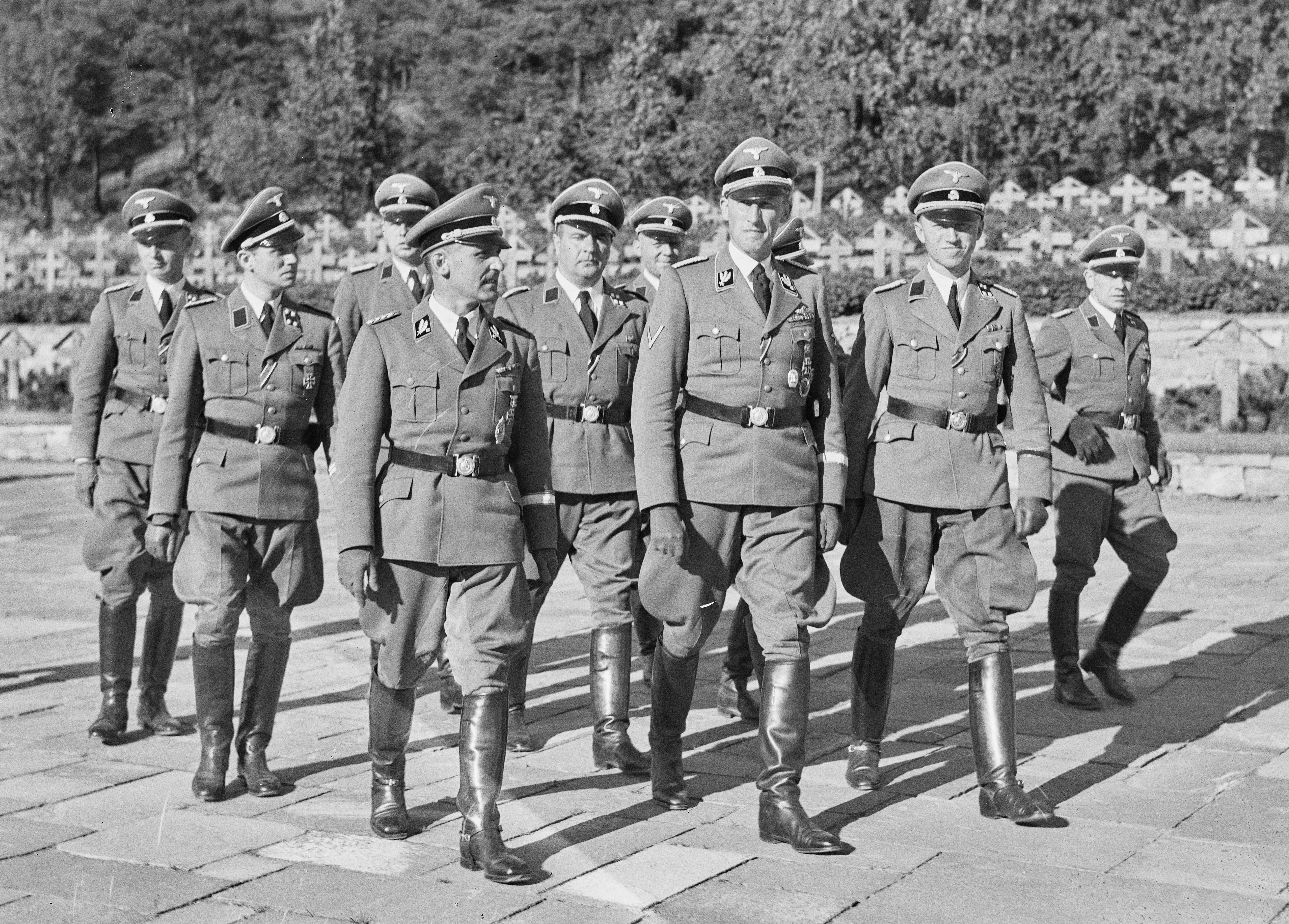 Reinhard Heydrich at Ekeberg cemetery for German soldiers in Oslo during his visit to Norway 3-6 September 1941. Heydrich (1904 – 1942) was a SS-Obergruppenführer und General der Polizei (Senior Group Leader and General of Police) as well as chief of the Reich Main Security Office RSHA (including the Gestapo, Kripo, and SD). Heydrich walking in front with SS-Brigadeführer/SS-Gruppenführer Heinrich Müller (head of the Gestapo) to his right and SS_Oberführer Heinrich Fehlis (leader of SD and Sipo in Norway) to his left. Also SS-hauptsturmführer Hermann Kluckhohn, SS-Sturmbannführer Walter Schellenberg, Rudolf Schiedermair, and other SS police officers.